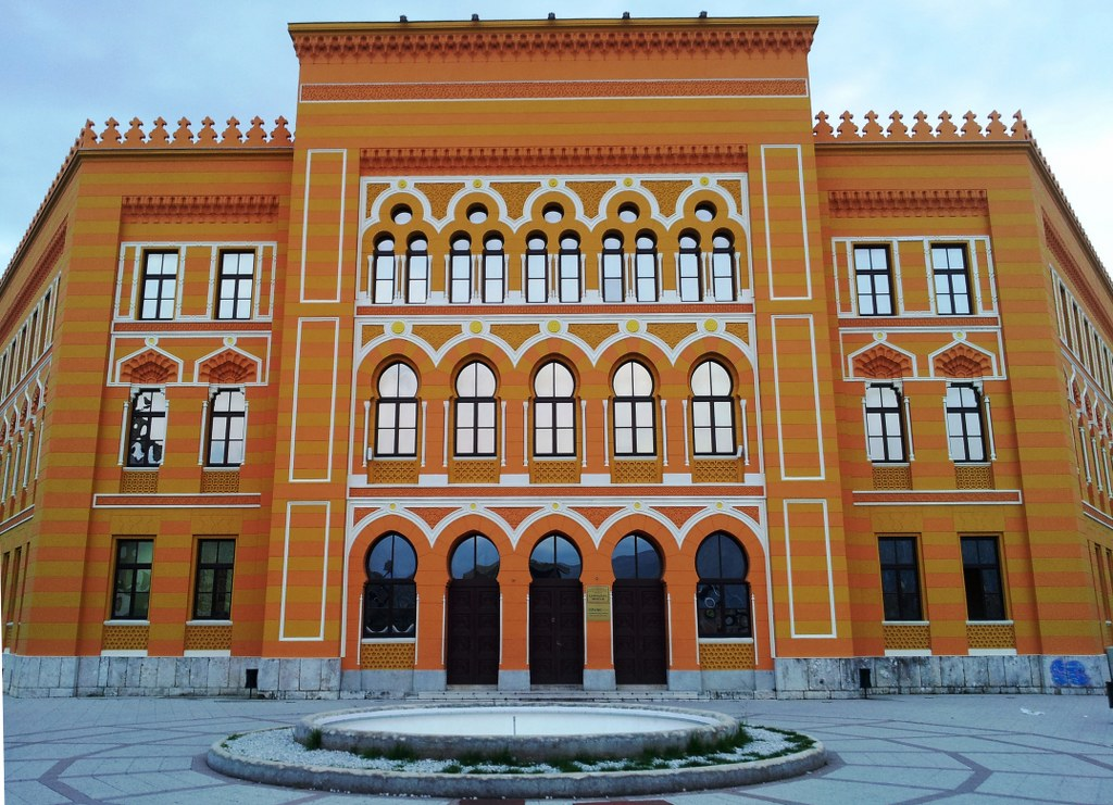 Gymnasium in Mostar